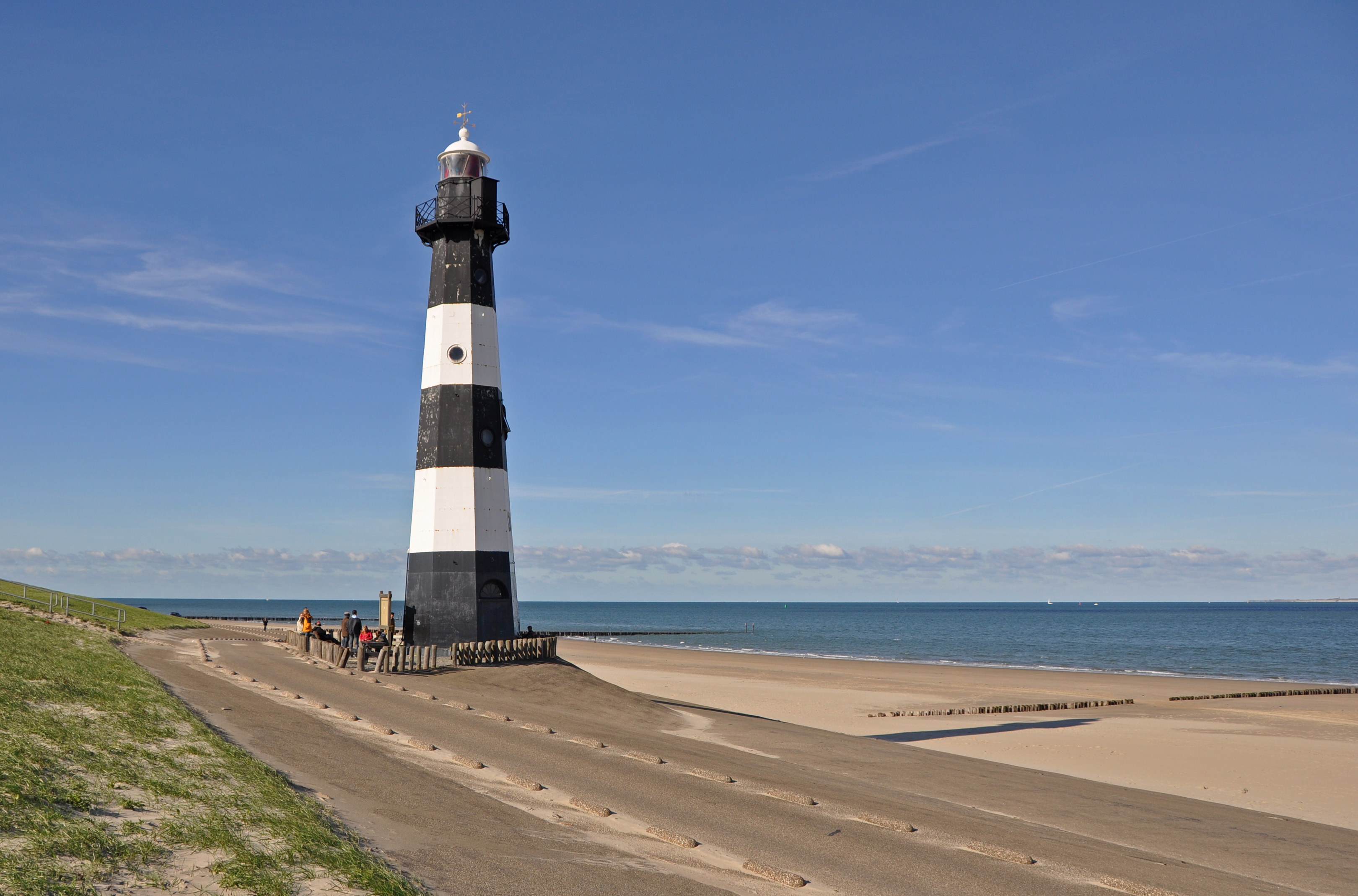 Breskens (the Netherlands): the lighthouse